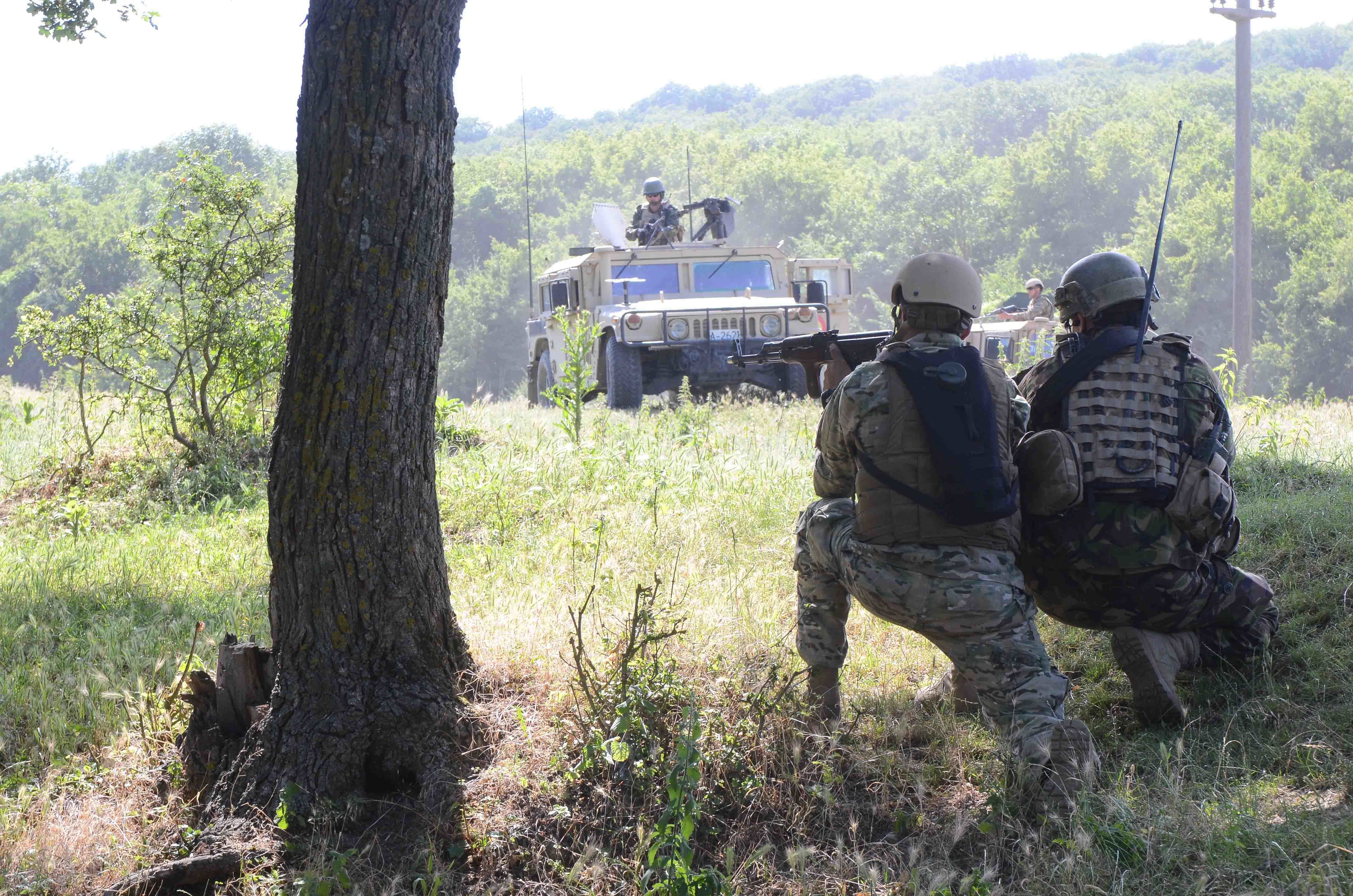 Georgian and Romanian Special Operations Forces Soldiers talk to one another while assaulting an enemy campsite. The Georgian and Romanian forces were on a mounted patrol when they spotted the enemy camp and began their assault. Throughout Operation Junction Strike, all of the countries involved have worked together at all levels of operation from the command team level to the tactical team level.